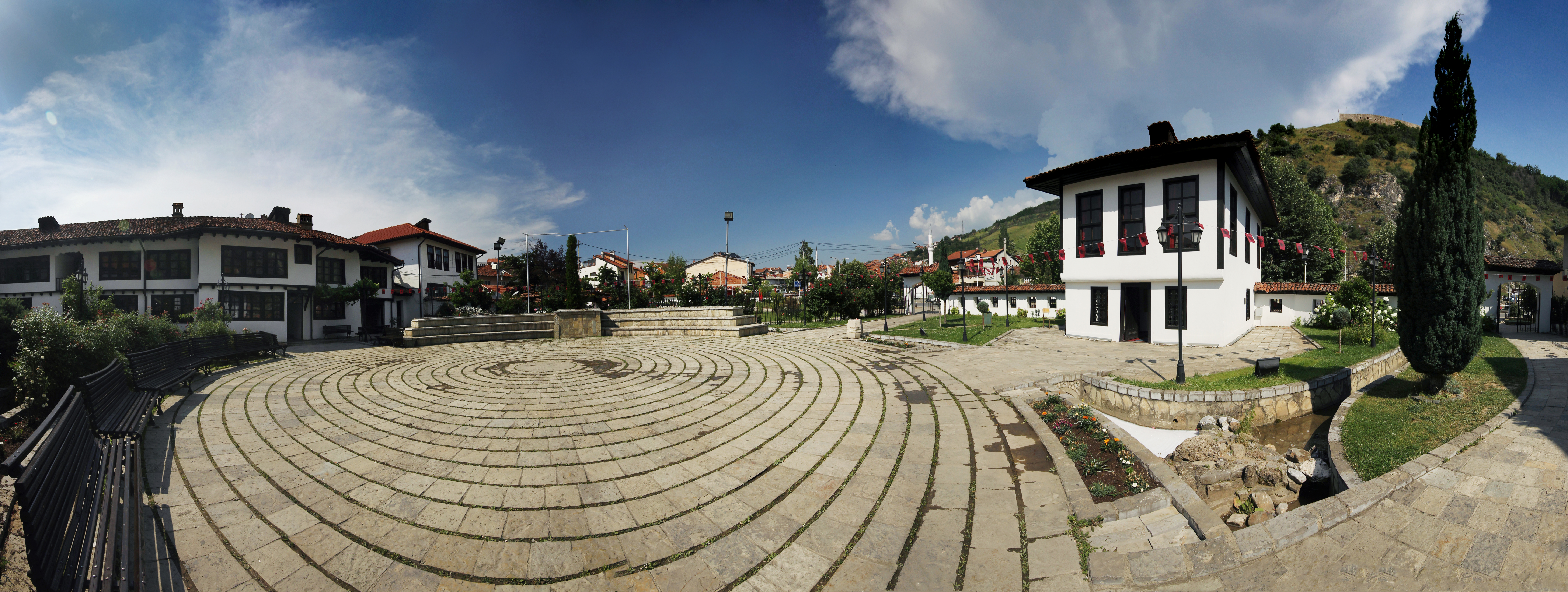 Prizren